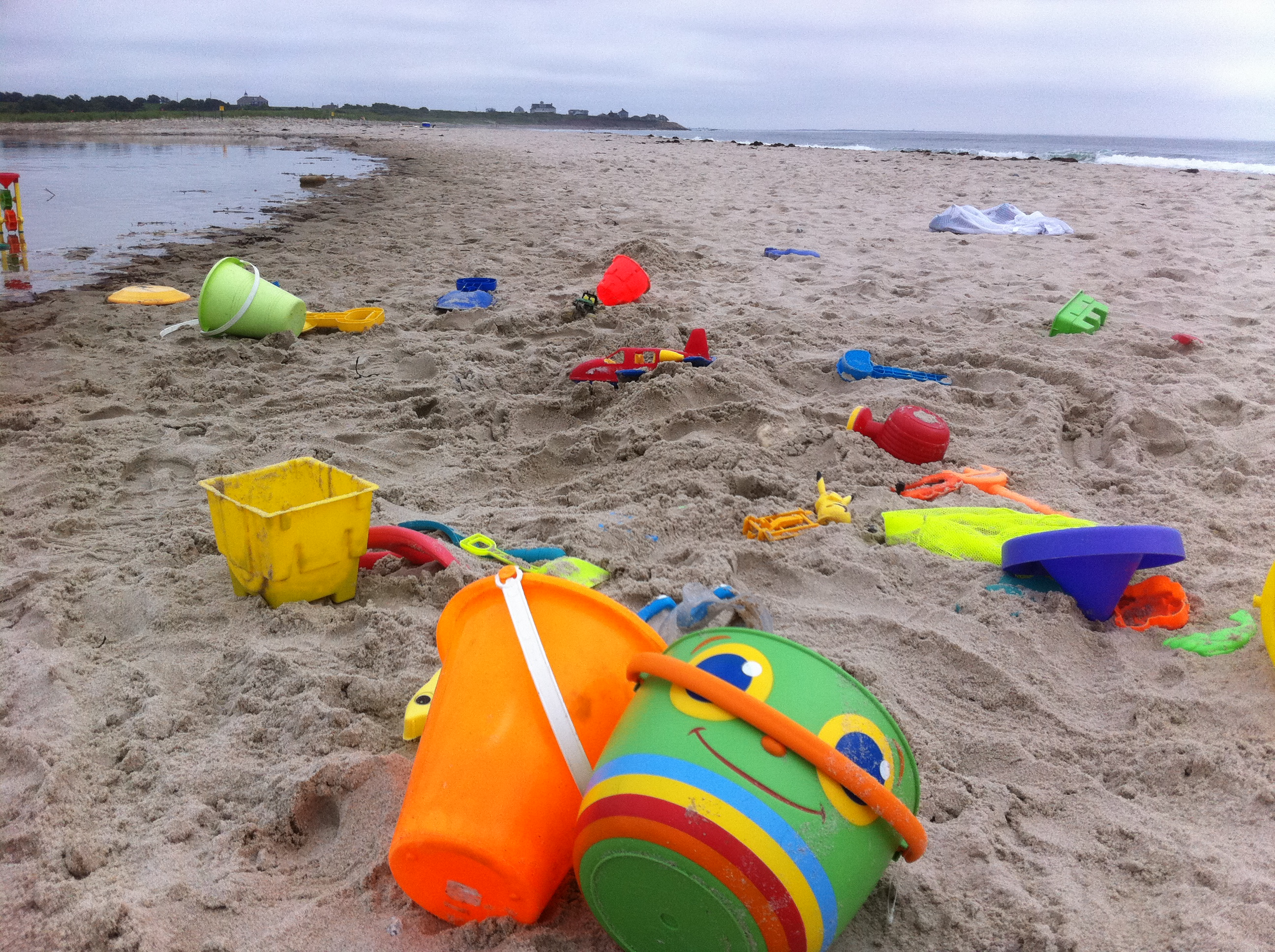 Goosewing Beach and Quicksand Pond